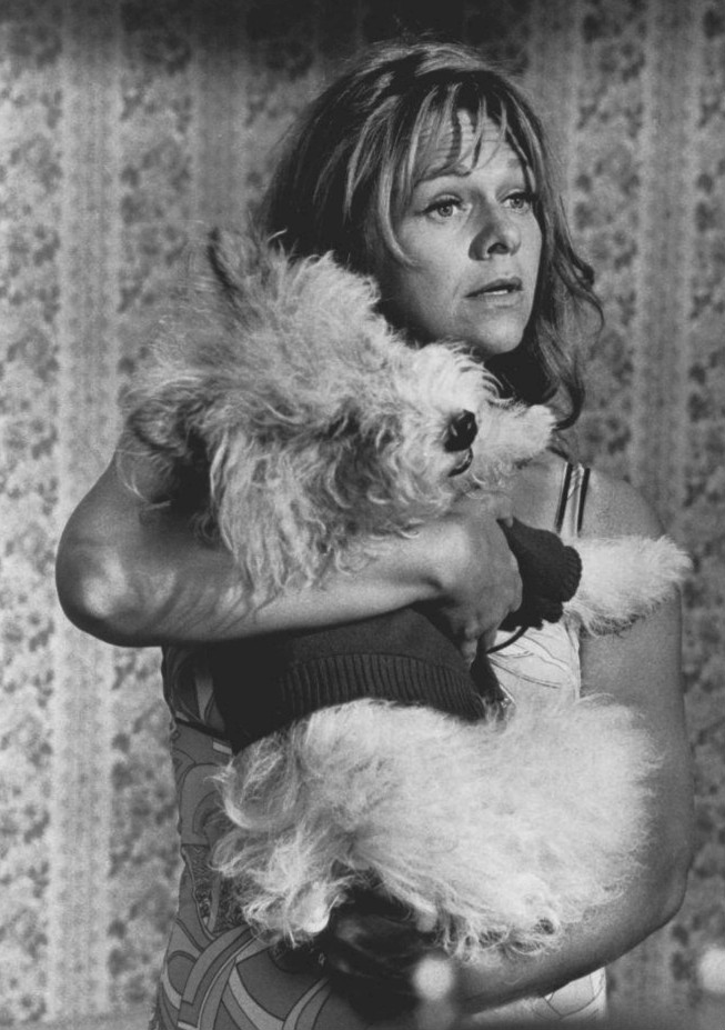 Photo of Estelle Parsons from an episode of Love, American Style.